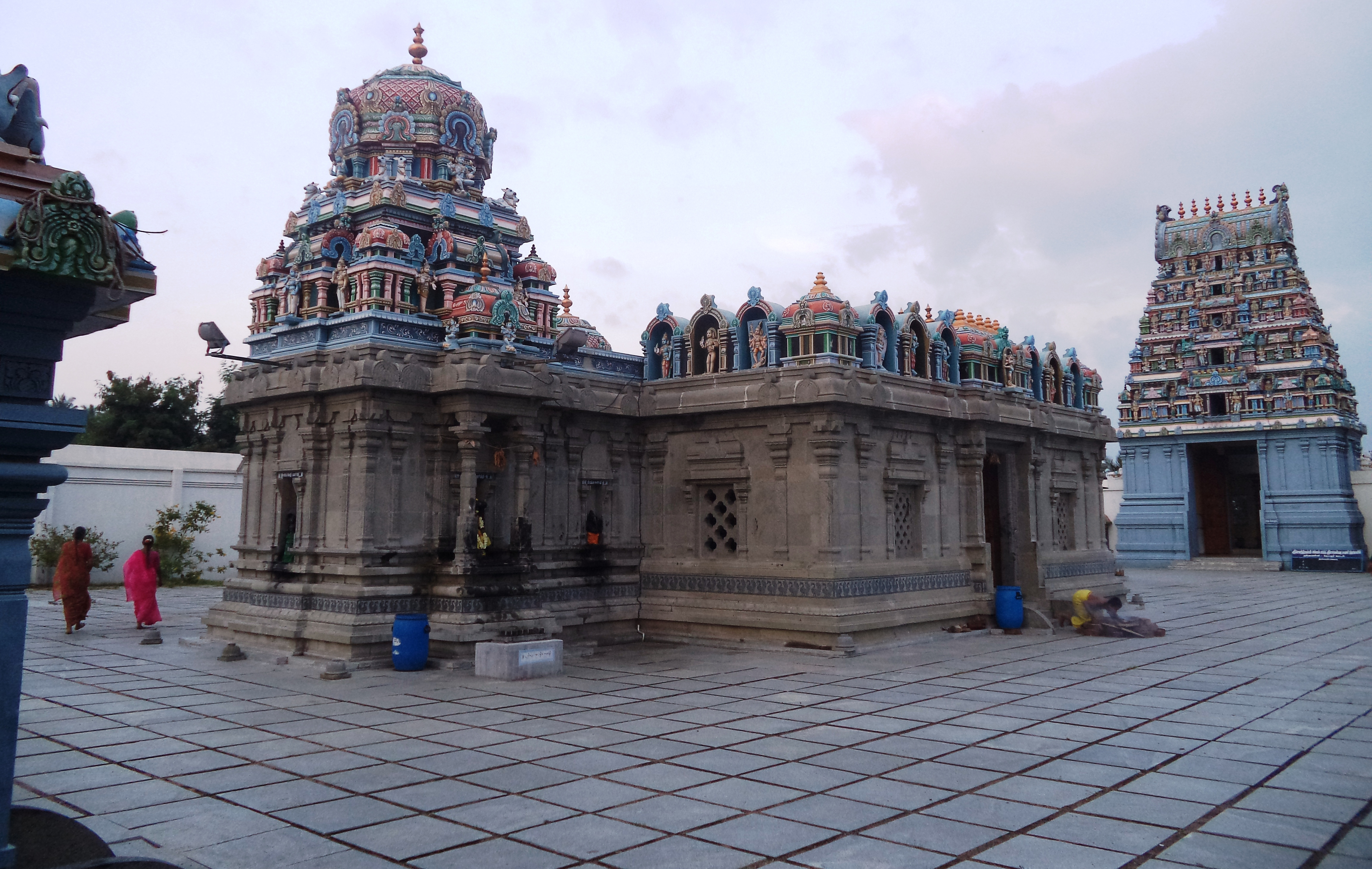 Sri Someswara Swamy with Soundaravalli Ambal Temple, Nangavalli, Salem